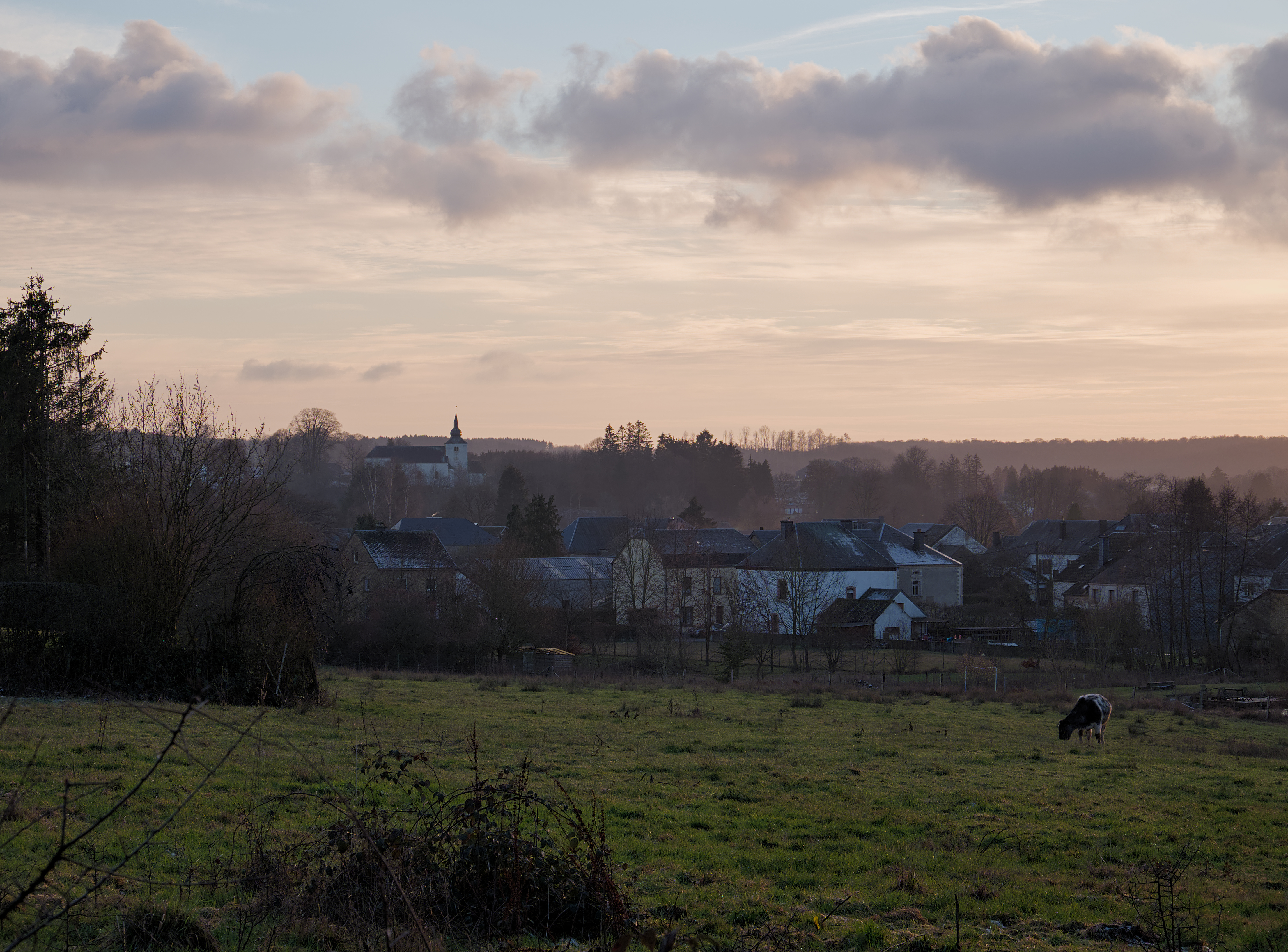 Entering Les Bulles on the GR-16 (Rue de la Chevrette) during golden hour